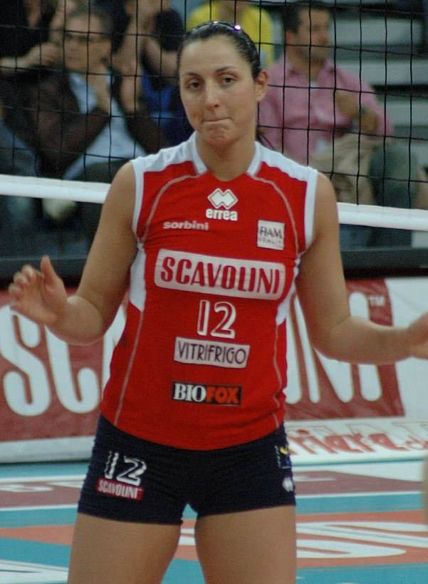 Italian volleyball player Carolina Costagrande